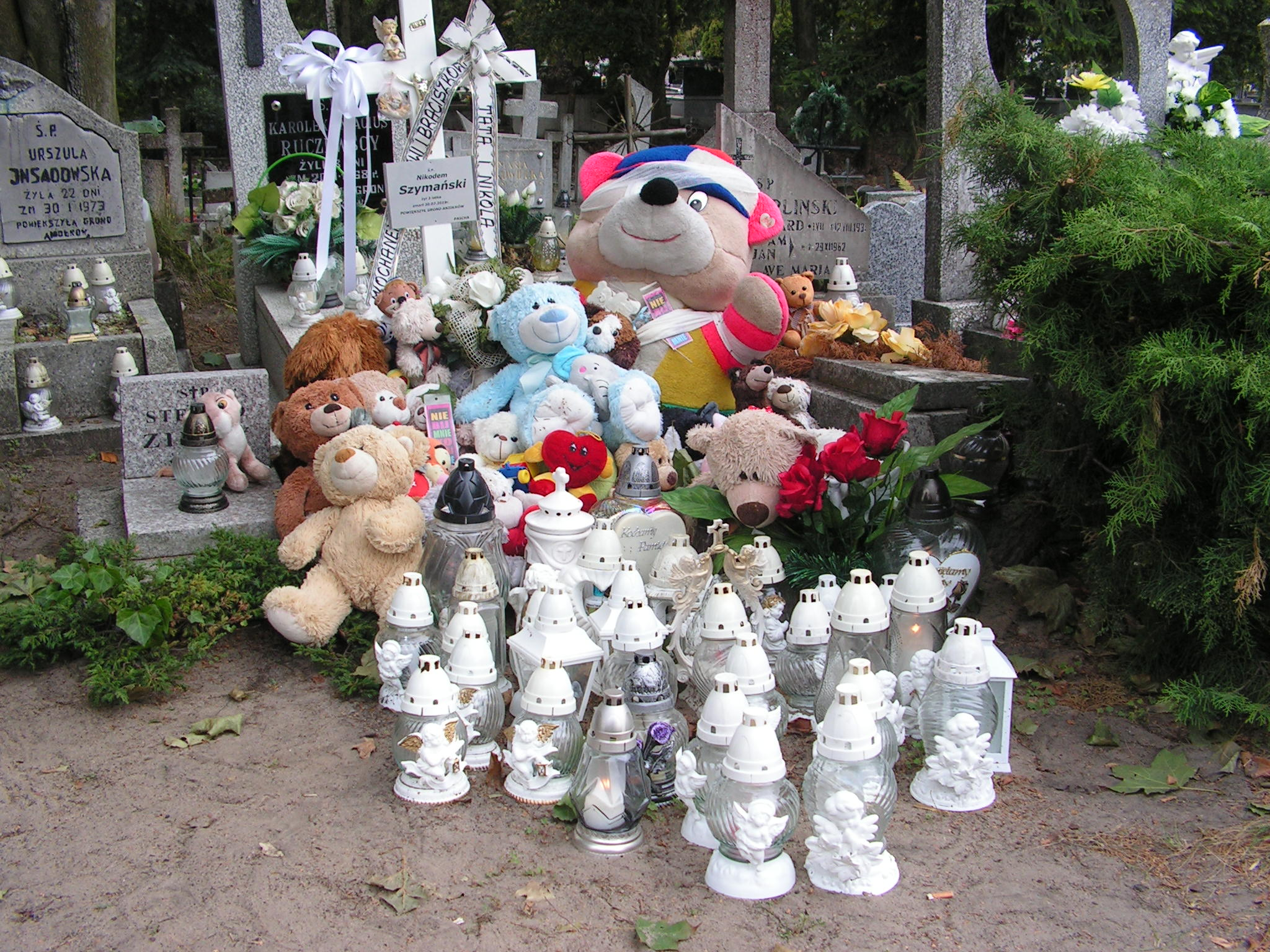 Grave of Nikodem Szymański (14.03.2016-30.07.2019) on Communal Cemetery in Włocławek. Boy was tortured for death by extremely brutal methods by cohabitant of his mother. Here is 3 days after the funeral. Citizens bring for his grave a lot of teddy bears, some of them are bandaged or hold card with requests to not beat children. Boy's death was widely commented in local media.